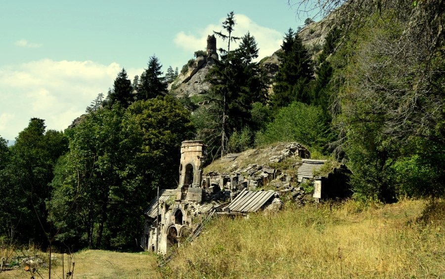 Shoreti general view on monastery and fortress